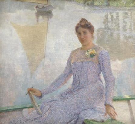 Portrait of Anna de Weert by Emile Claus (he died in 1924) so guess at 1920???